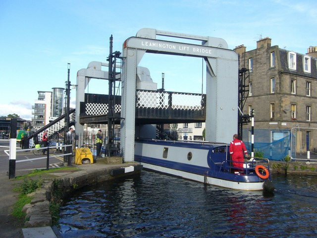 Leamington Lift Bridge, Union Canal The bridge was moved to its present position in the 1920s following the closure and drainage of Port Hopetoun, the original canal terminus which was subsequently filled in and occupied by Lothian House in Lothian Road. The canal then terminated at the other main basin, Port Hamilton, now redeveloped as Edinburgh Quay. It can be seen in the distance on the left of the photograph.